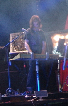 Live In Madrid May - 2006